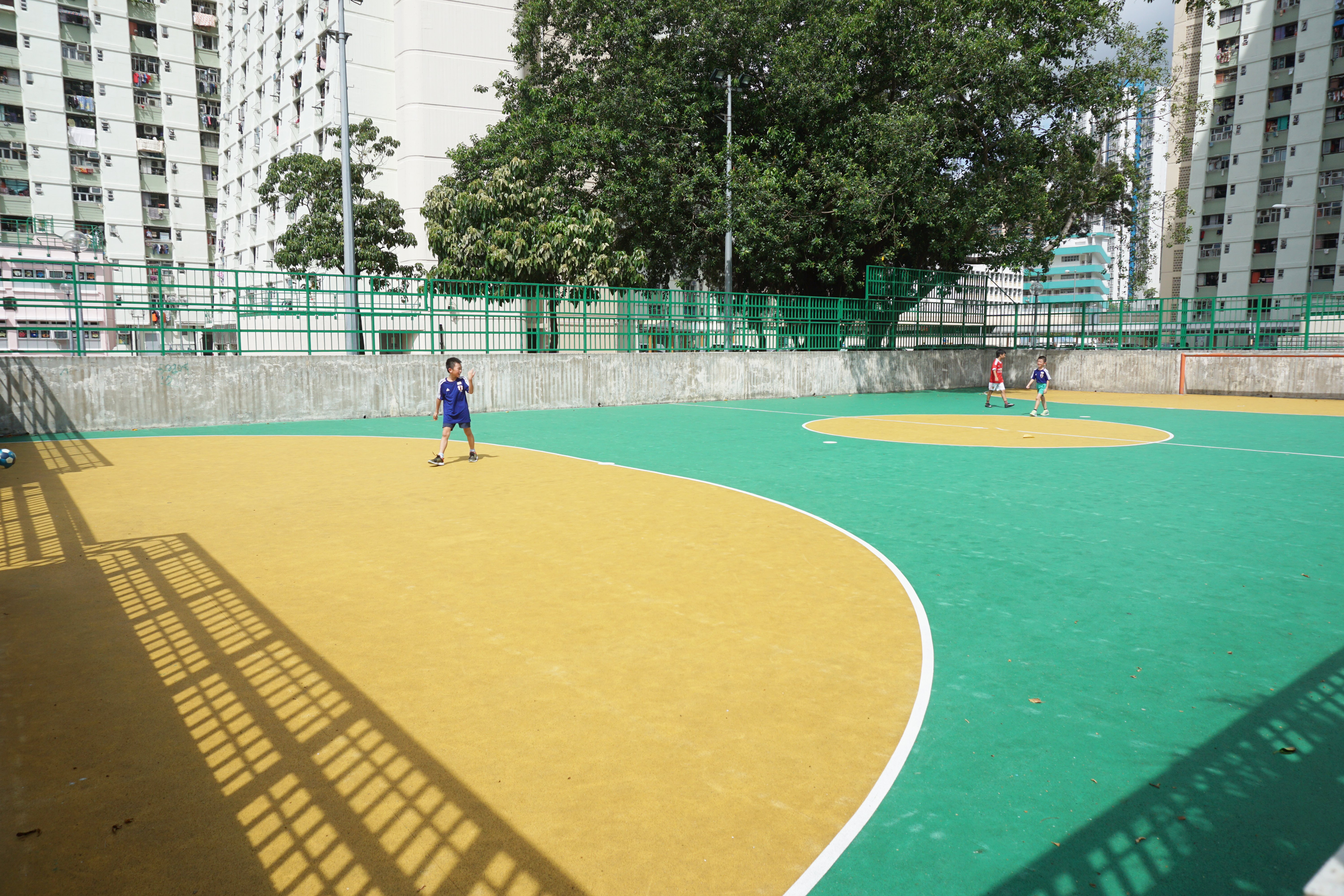 Tai Hing Estate in Tuen Mun, Hong Kong.